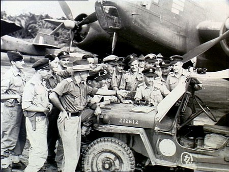 Tadji, North East New Guinea. 1945-06-27. Lieutenant C. C. Eling of Hurlstone Park, NSW (in slouch hat), briefing TAC-R (Tactical Reconnaissance) crews at Tadji Airstrip. Lt Eling, Australian Army, a graduate of the RAAF School of Army Co-Operation, Canberra, ACT, is liaison officer for TAC-R at No. 71 Wing RAAF.